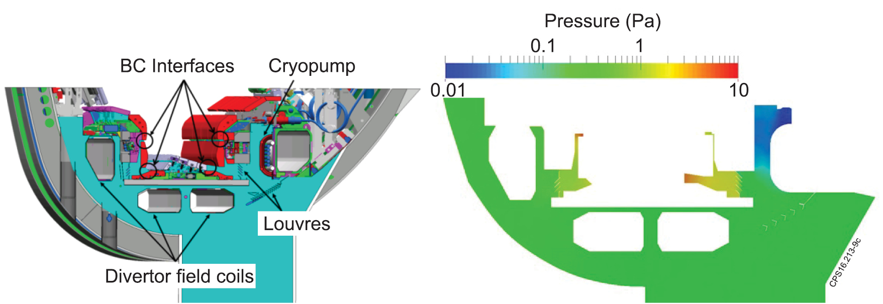 Geometrical representation of Joint European Torus (JET) sub-divertor structure (cyan area, left) and a typical calculated pressure contour plot (right).